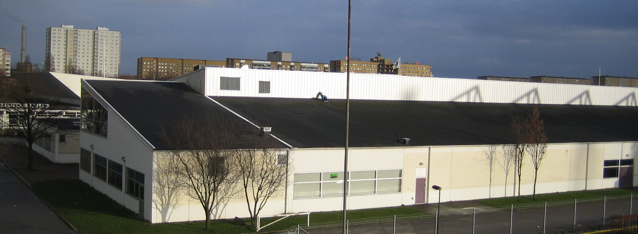 Atleticum sports arena in Malmö, Sweden.